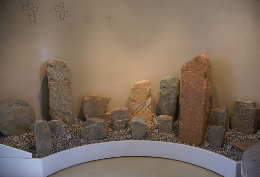 St Ninian's Cave, Wigtownshire, Scotland - crosses from the cave, on display in the Whithorn Priory Museum